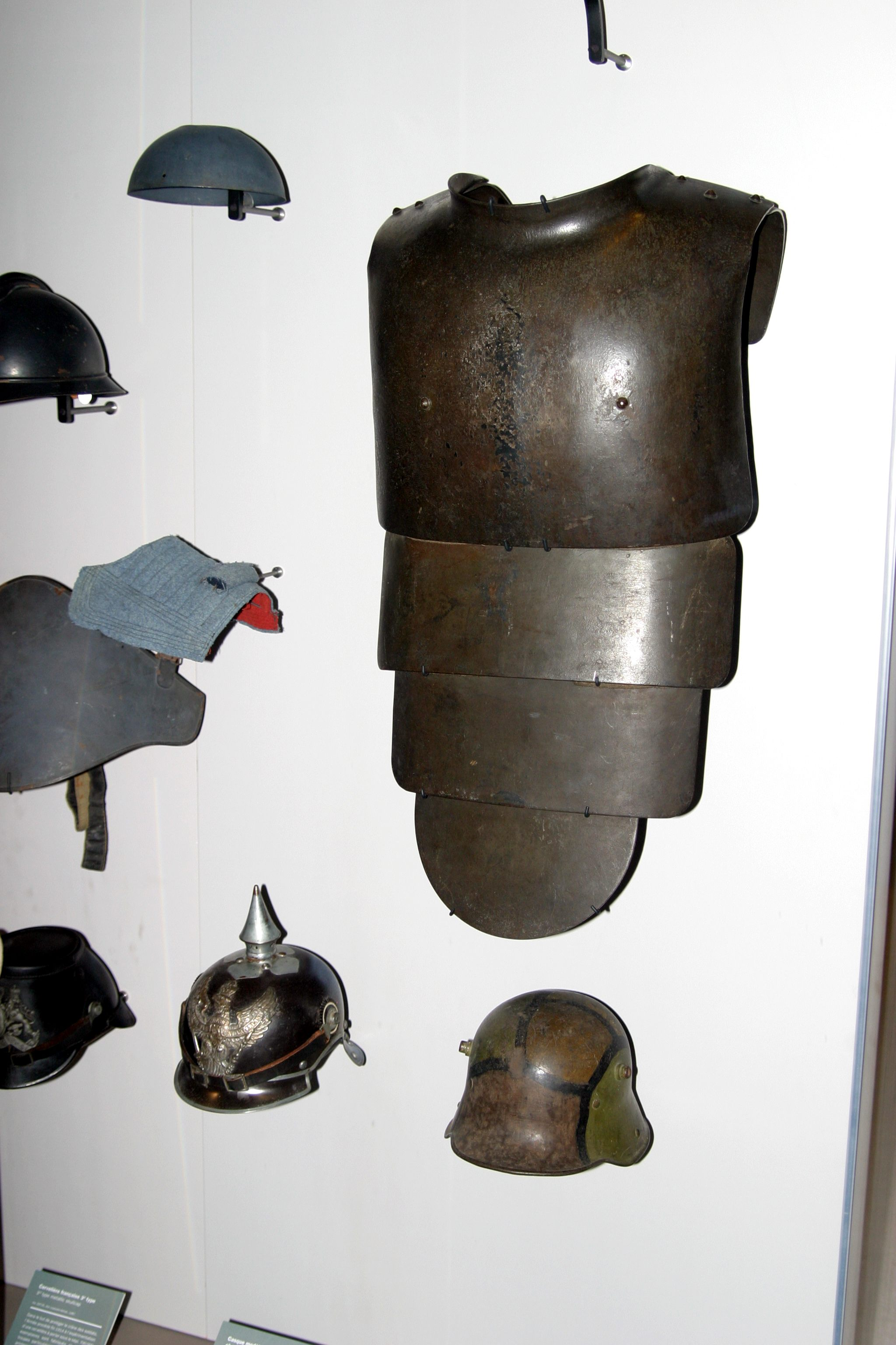 Description: World War I german Infantrie-Panzer, 1918. Below: a "Brow armor" frontal additional plate for the Stahlhelm. Source for the data: "Body Armour", ISBN 1574882937